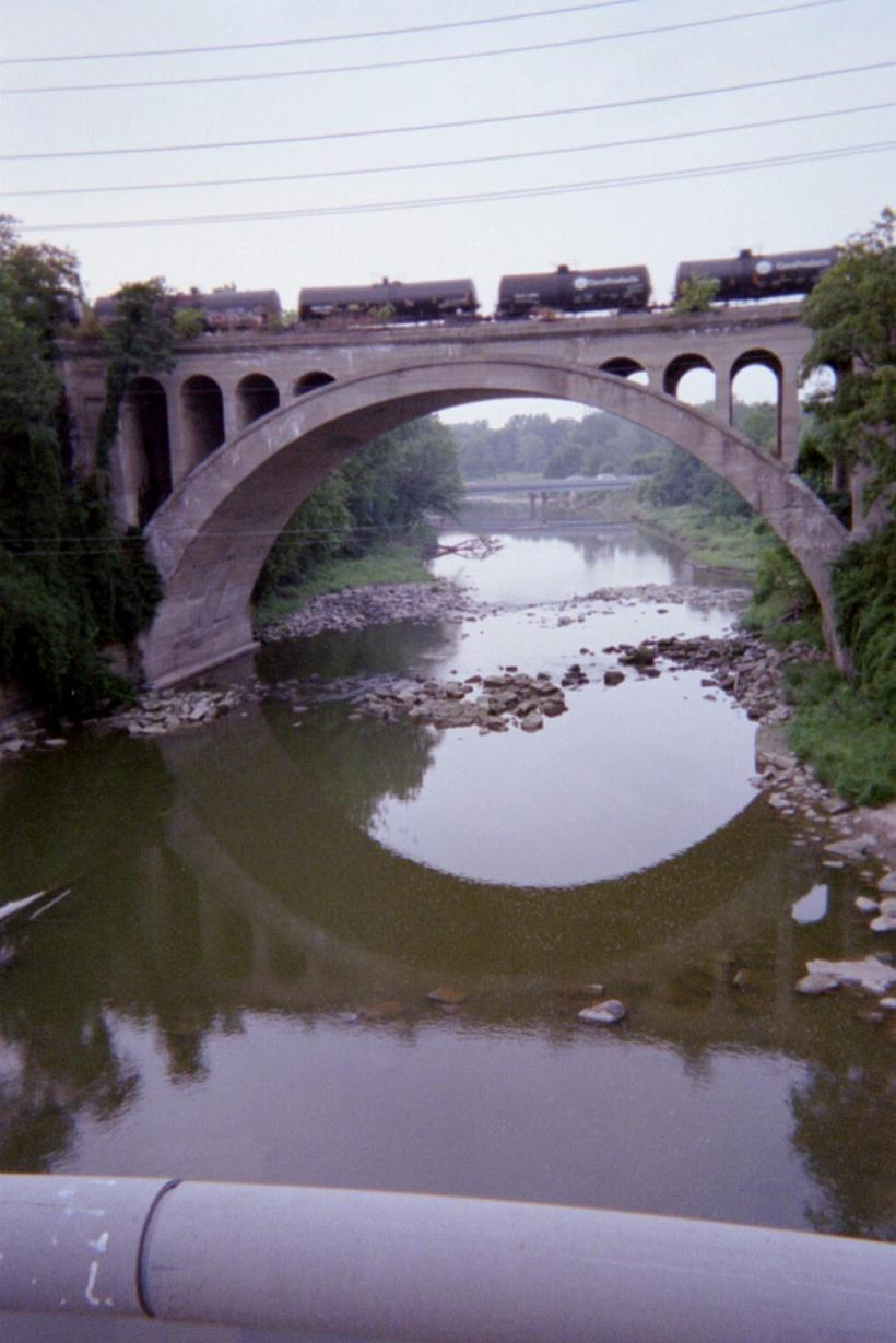 CSX over Ohio's Grand River, looking north from US-20